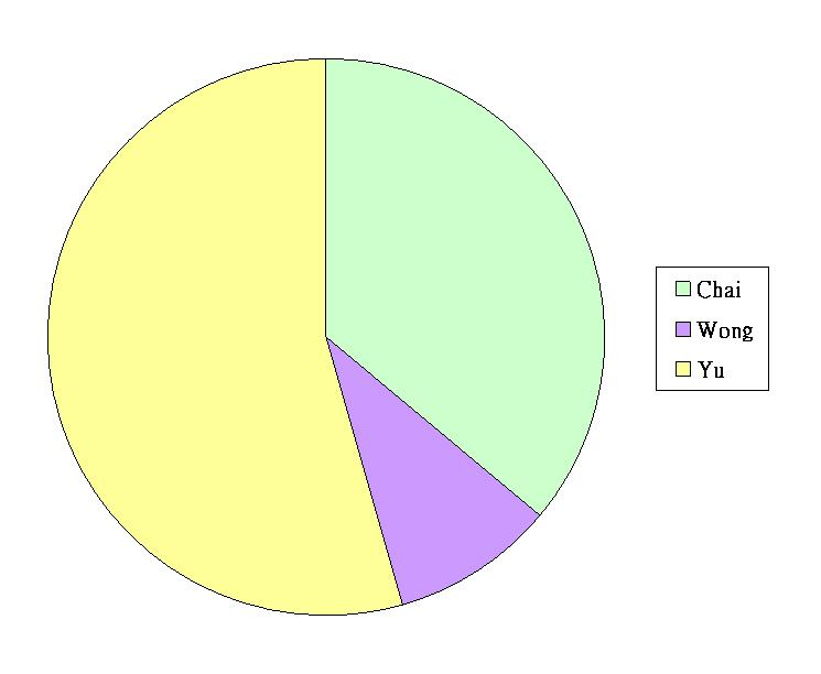 Graph of Democratic Progressive Party chairmanship election in 2006.